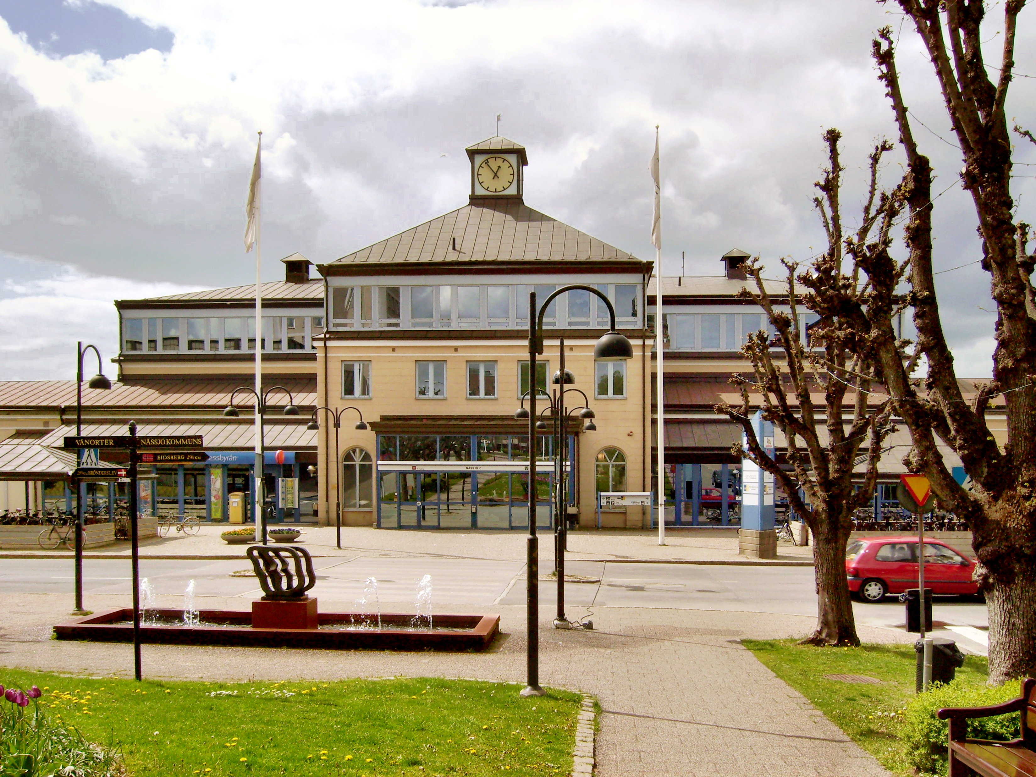 The railway station in the town Nässjö, Sweden.